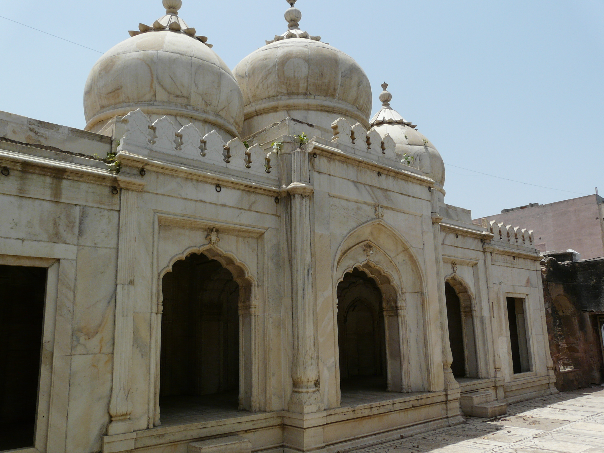 Even though this building is now within the compound of Jahaz Mahal, it is right adjacent to Bahktiyar Kaki's tomb (which abuts the Jahaz Mahal compound) and was probably built to complement the tomb and be used by tomb visitors. A marble tower between the mosque and tomb is now embedded in the wall separating the Jahaz Mahal and dargah compounds.